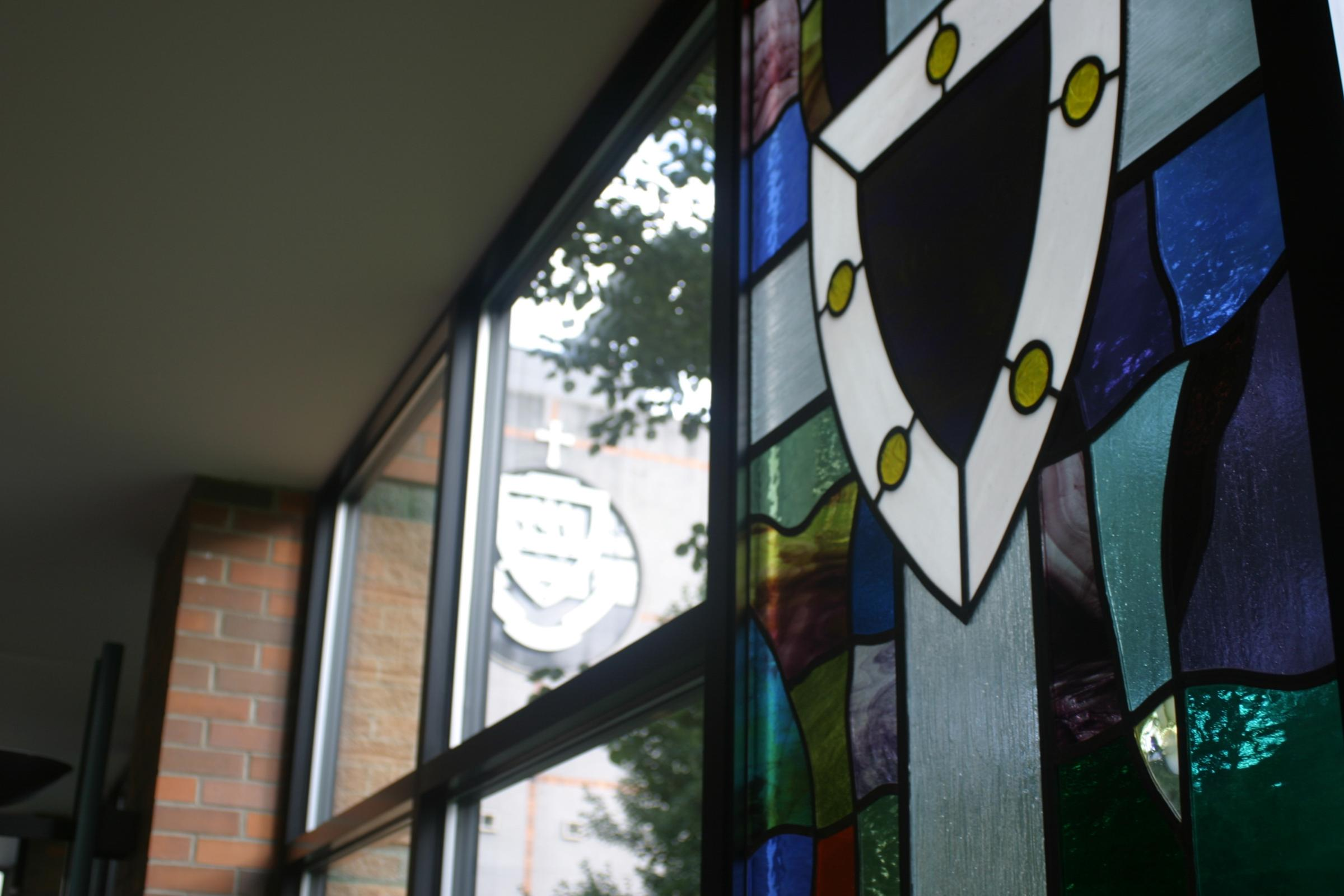 Inside look of the Stain Glass Windows of The Center for Learning and Performing Arts on The University of Scranton Campus, at Scranton, Pennsylvania, United States.